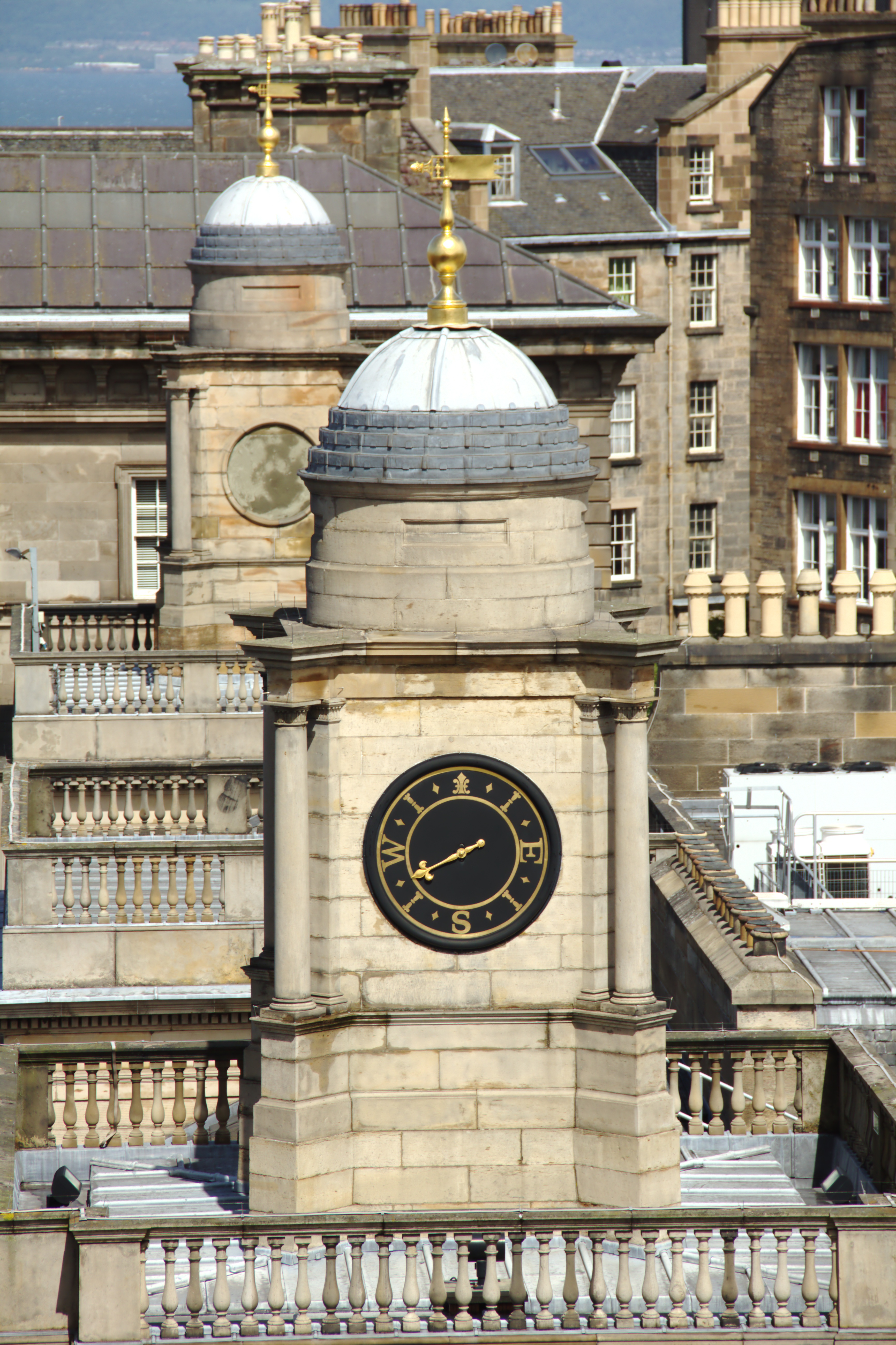 Weather vane with dial atop H.M. General Register House, Edinburgh